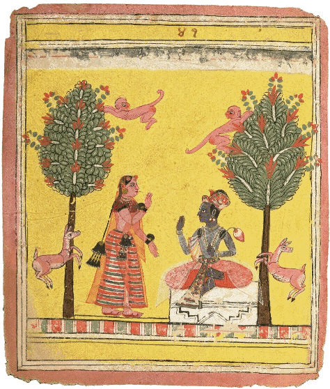 Radha and Krishna Malwa, c. 1620